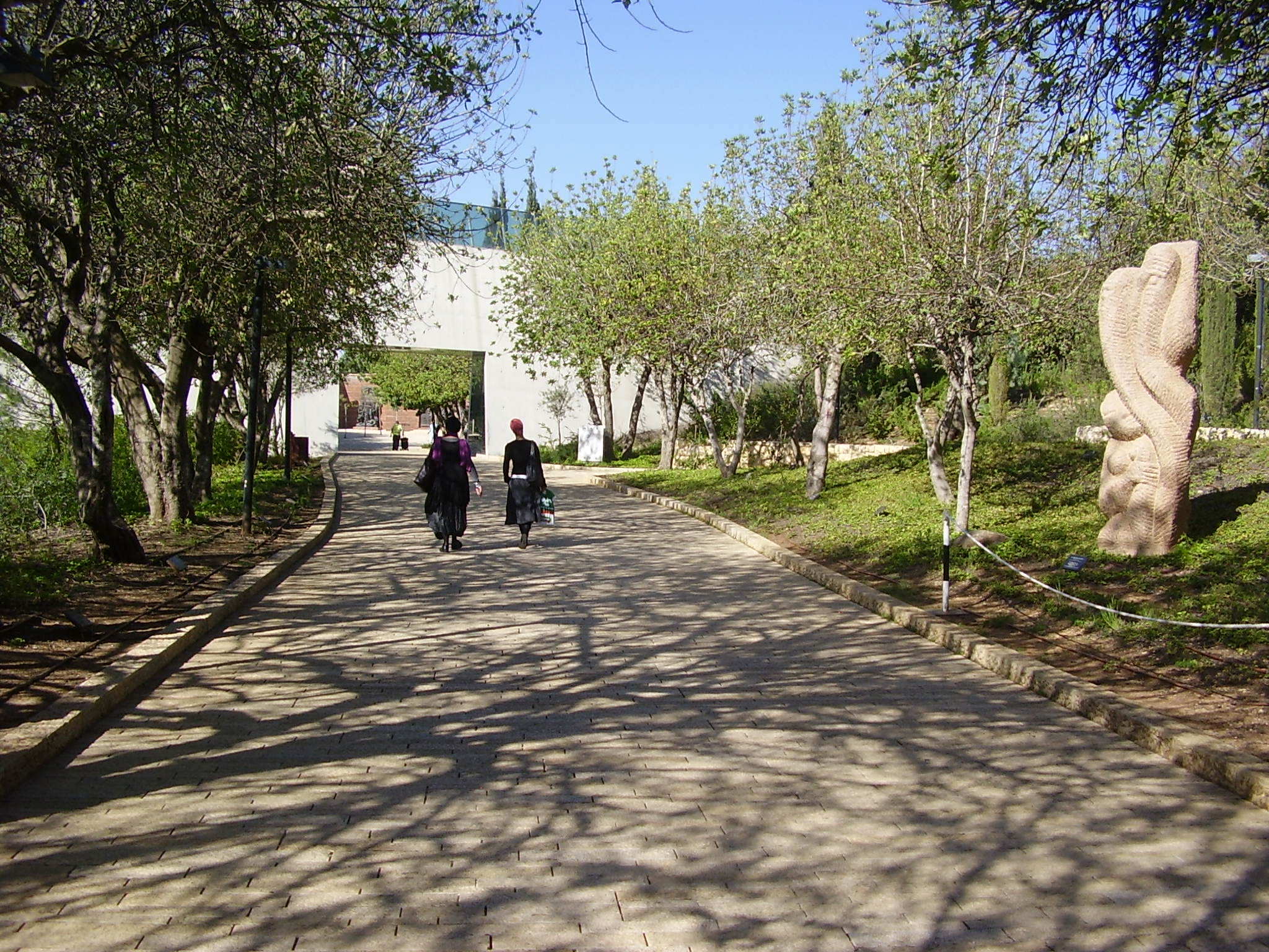 the righteous among the nations avenue in yad vashem